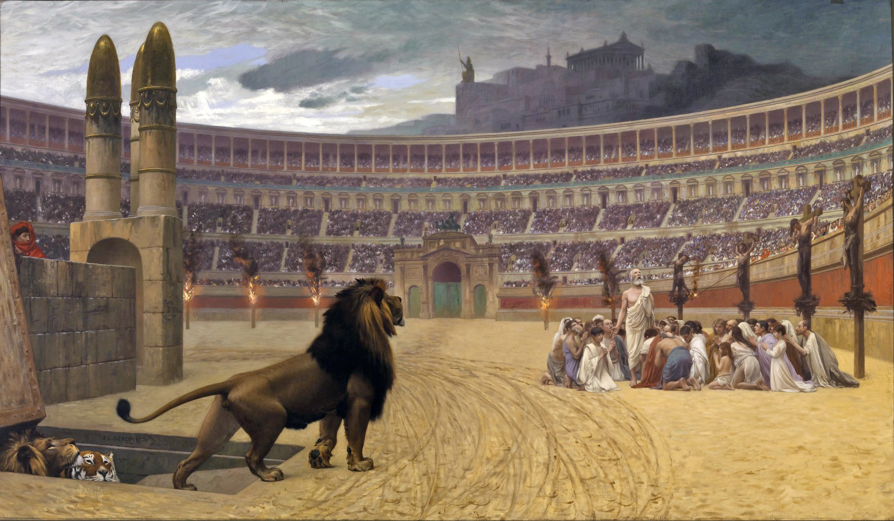 William T. Walters commissioned this painting in 1863, but the artist did not deliver it until 20 years later. In a letter to Walters, Gérôme identified the setting as ancient Rome's racecourse, the Circus Maximus. He noted such details as the goal posts and the chariot tracks in the dirt. The seating, however, more closely resembles that of the Colosseum, Rome's amphitheater, in which gladiatorial combats and other spectacles were held. Similarly, the hill in the background surmounted by a colossal statue and a temple is nearer in appearance to the Athenian Acropolis than it is to Rome's Palatine Hill. The artist also commented on the religious fortitude of the victims who were about to suffer martyrdom either by being devoured by the wild beasts or by being smeared with pitch and set ablaze, which also never took place in the Circus Maximus. In this instance, Gérôme, whose paintings were usually admired for their sense of reality, has subordinated historical accuracy to drama. W. M. Brady & Co, New York, in "Drawings and Oil Sketches 1700-1900," 27 January 2009 - 12 February 2009, No. 21, offers "Study for the 'Death of Caesar," an oil on canvas with pen and ink underdrawing, measuring Height: 19.5 cm (7.6 in); Width: 33 cm (12.9 in) dimensions QS:P2048,19.5U174728;P2049,33U174728, which formerly belonged to Maurice Aiccardi, Paris. This sketch may be the one that Theophile Gautier alluded to during a visit to the artist's studio in 1858 (G. Ackerman, Jean-Leon Gerome: Monographie revisee 2000, pp. 240-241).